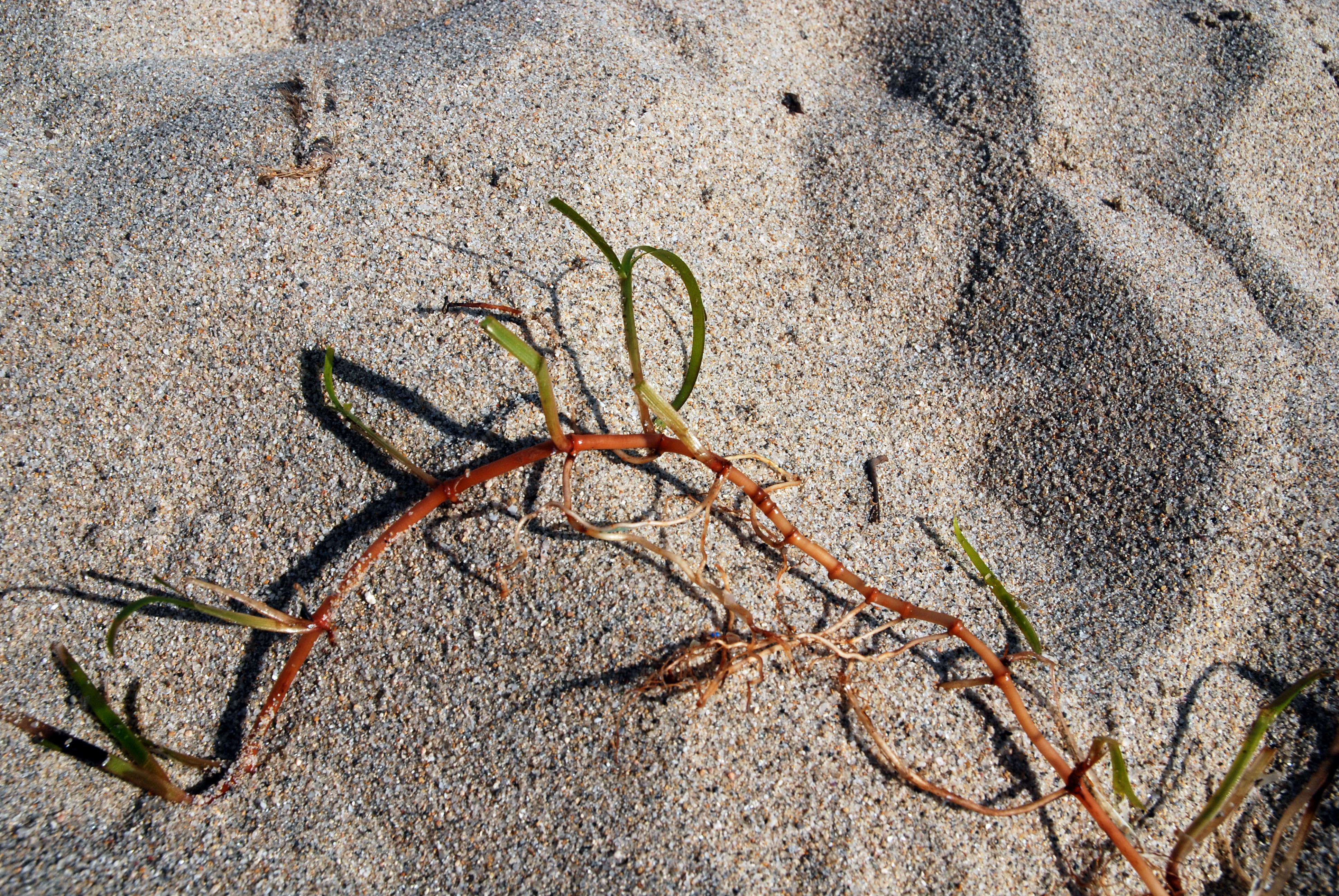 Cymodocea nodosa, Cala Cartoe, Sardinia, Italy